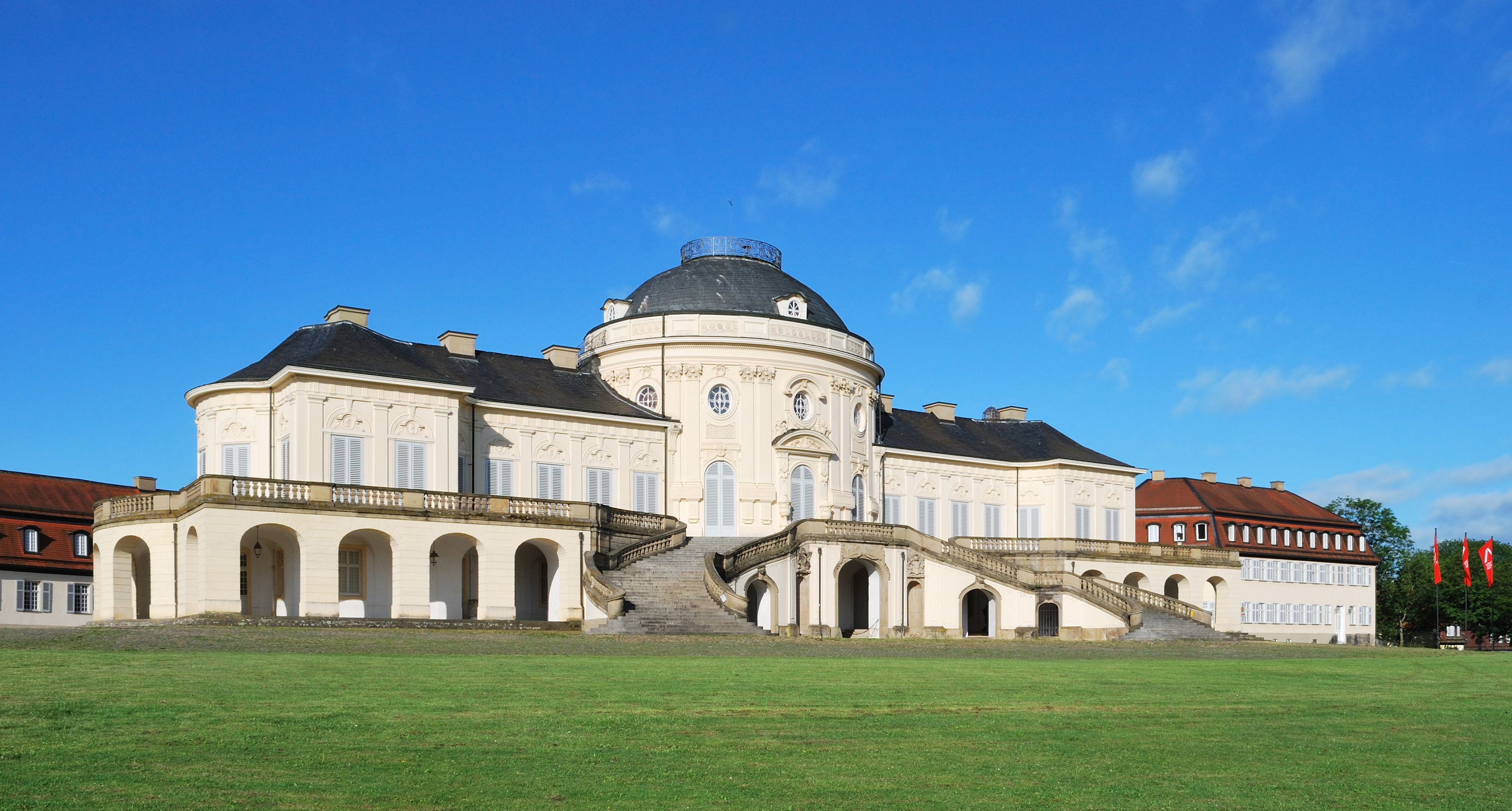 Castle Solitude near Stuttgart, view from the North.